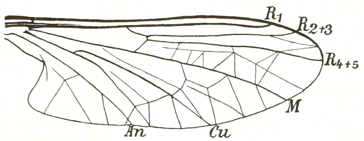 Labelled wing of Blepharicera fasciata (Westwood 1842). An: anal vein, Cu: cubitus, M: media, R: radius.